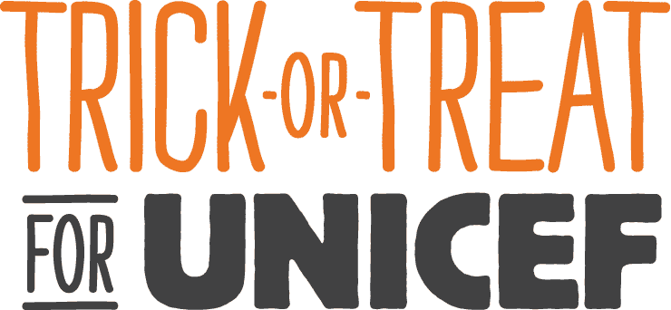 Logo for the campaign Trick-or-Treat for UNICEF which has been in use since 2012